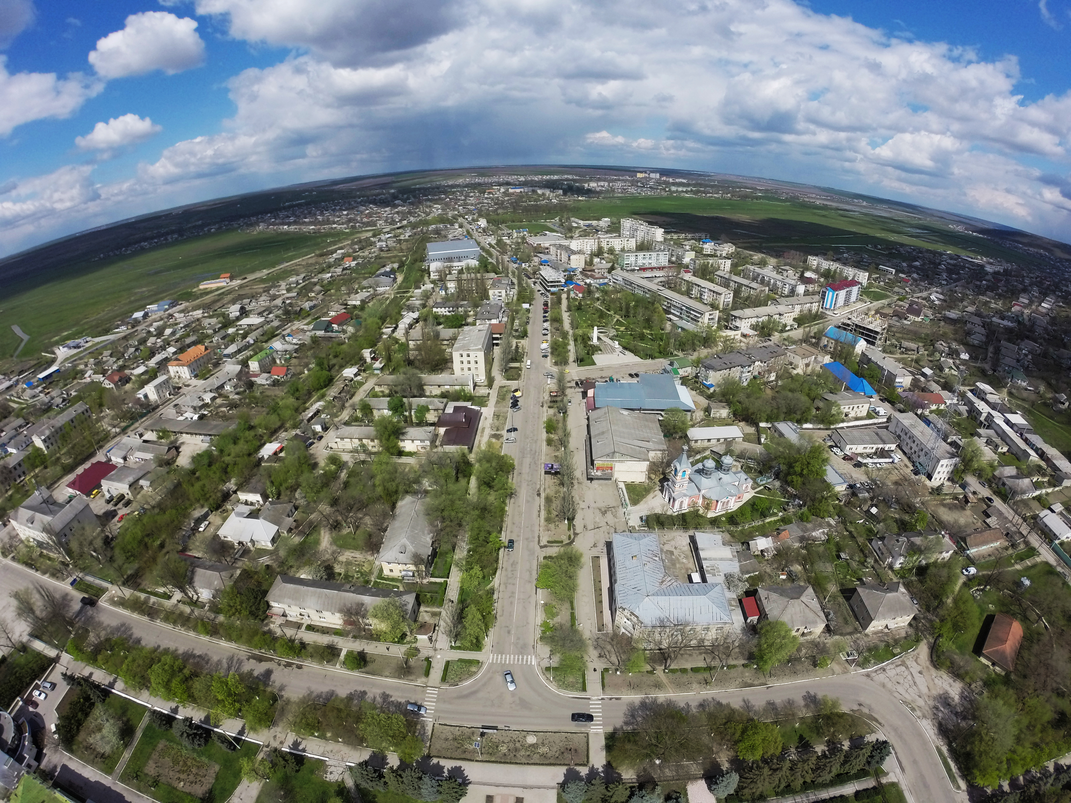 Strada centrala a orasului Causeni - Mihai Eminescu